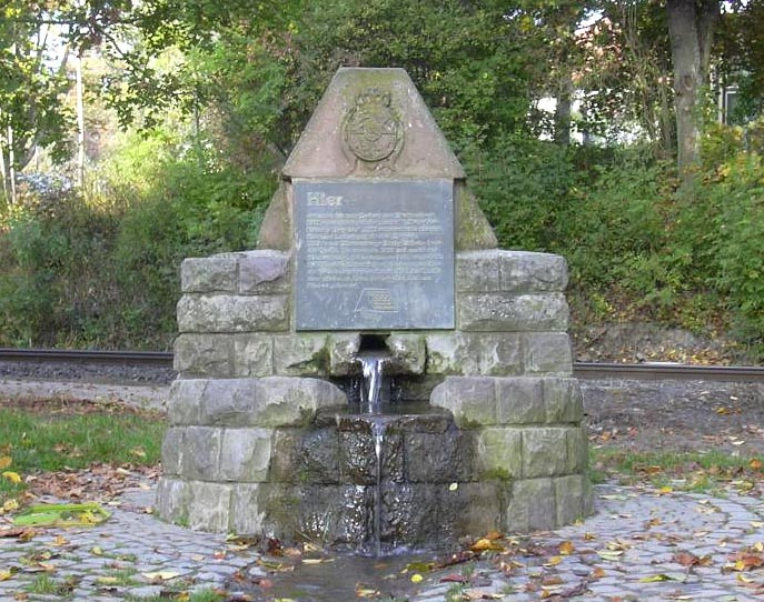 Source of the river Neckar in a park in Schwenningen, Germany